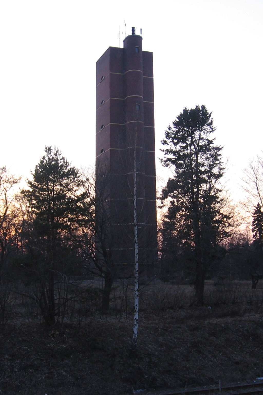 Pori water tower